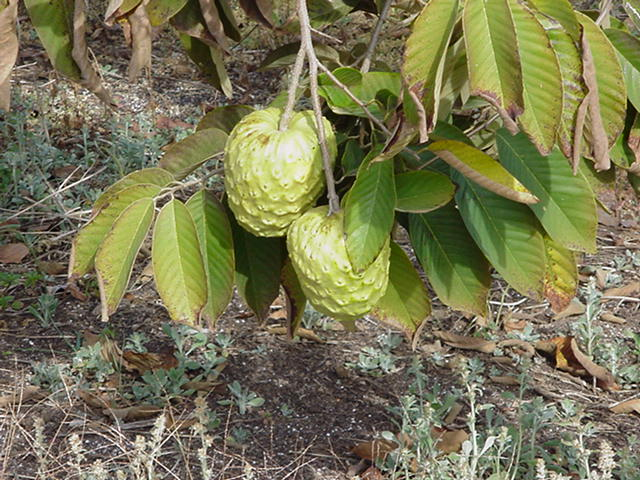 Cherimoya (Annona cherimola Mill.) fruits of the cultivar Madeira.